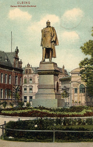 Monument to Wilhelm I of Germany in Elbing (today Poland), sculpted by Wilhelm Haverkamp and unveiled in 1905